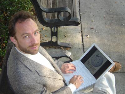 Jimmy Wales accessing Wikipedia.